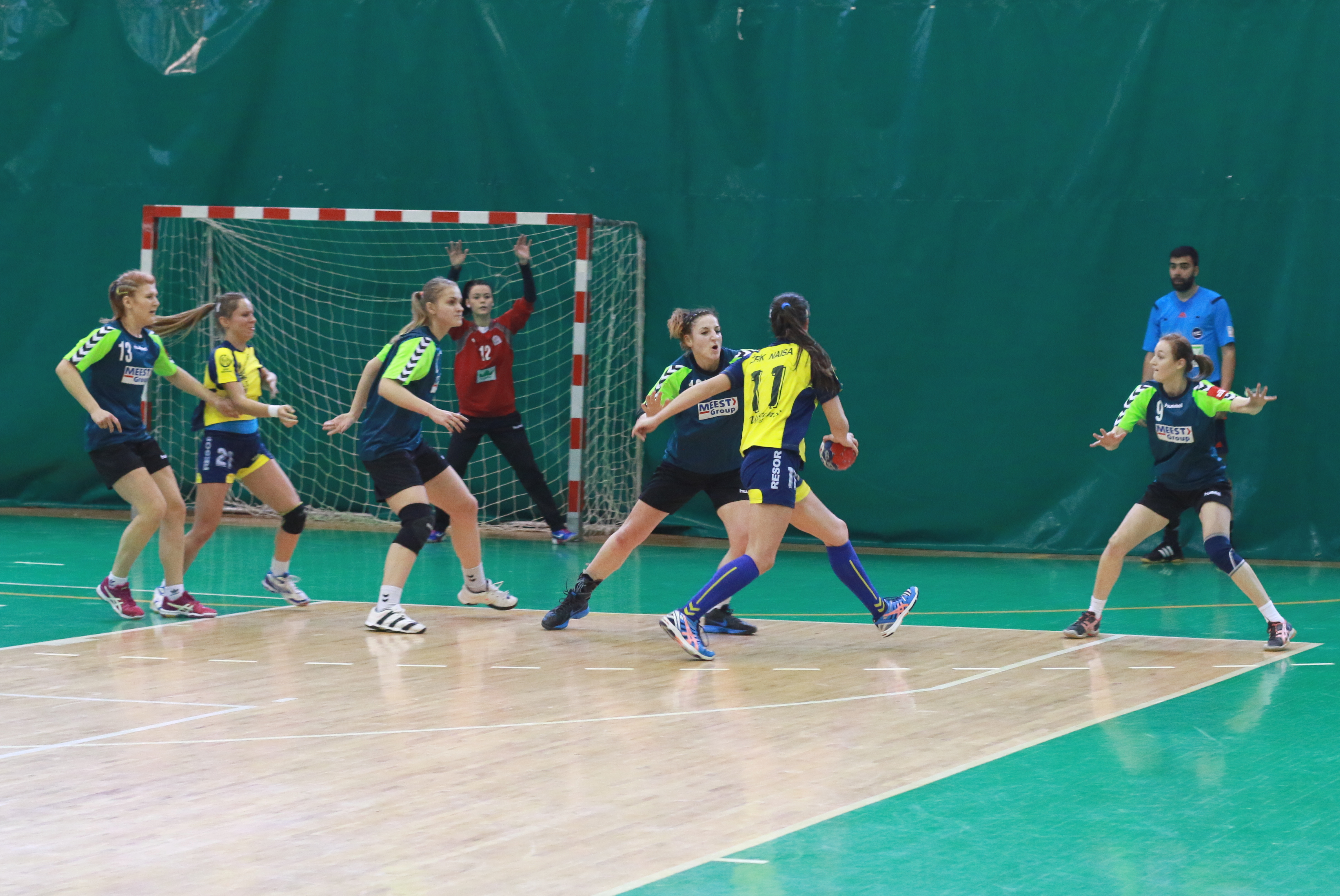 protection of team "Halychanka", Lviv, Ukraine in the match with NAIS, Nis, Serbia